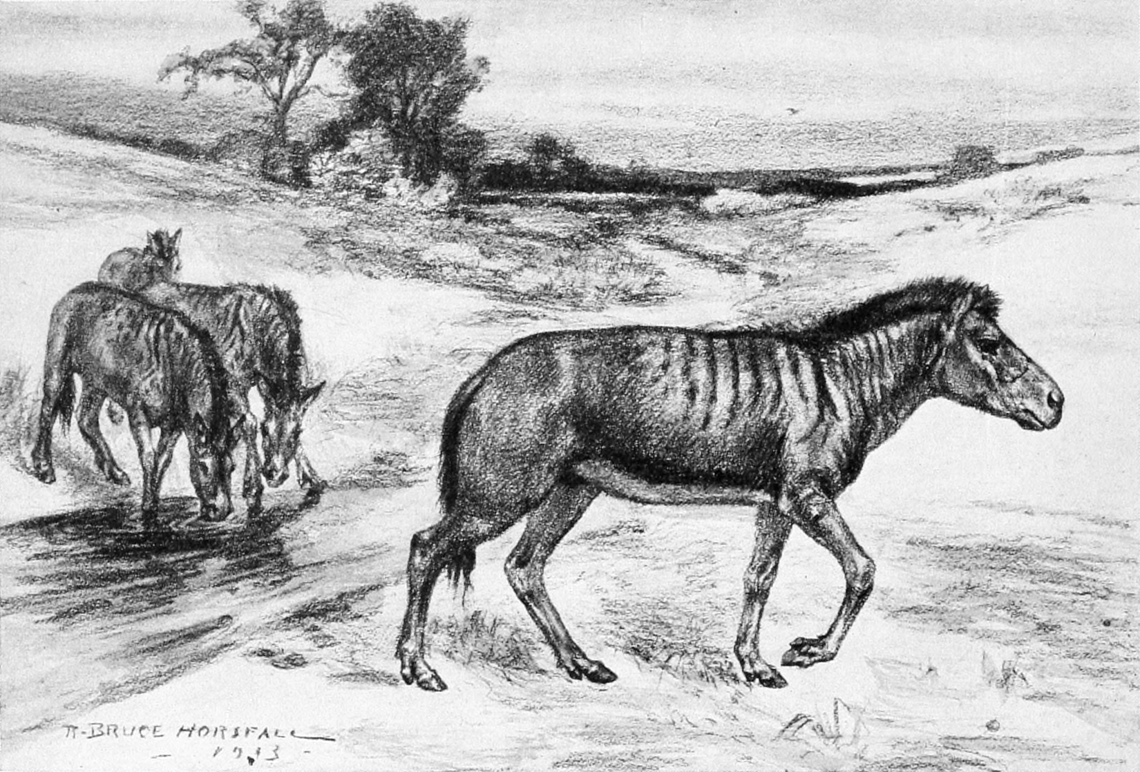 Neohipparion affine (formerly whitneyi).